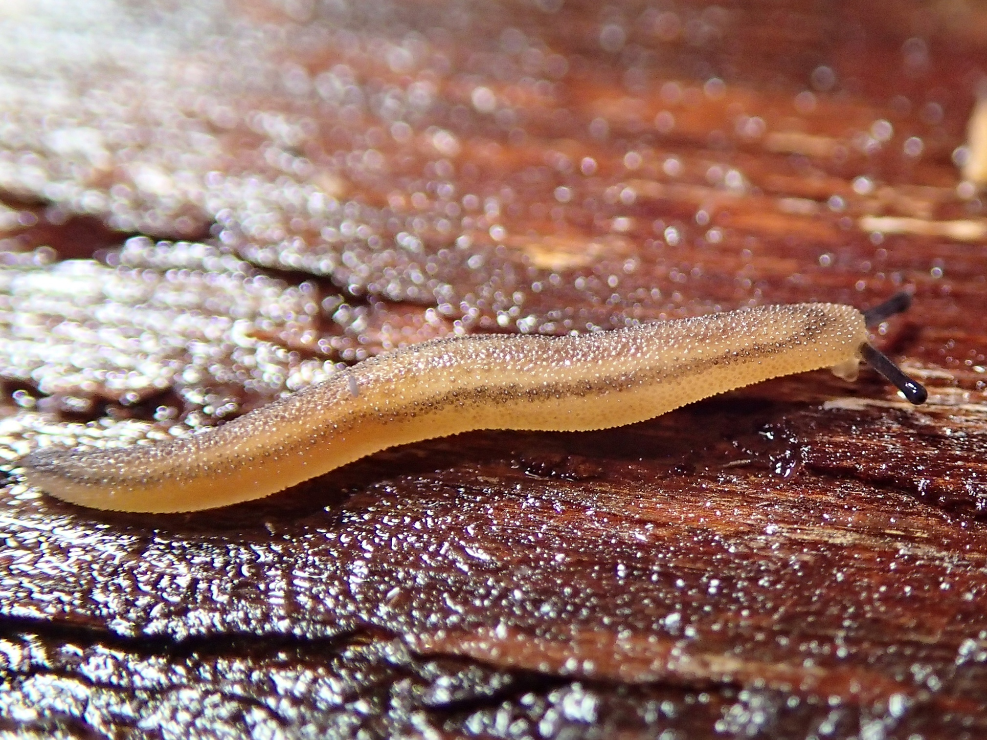 A carnivorous terrestrial slug "Granulilimax fuscicornis Minato, 1989" (Gastropoda: Systellommatophora: Rathouisiidae) from Anan, Tokushima, Japan.